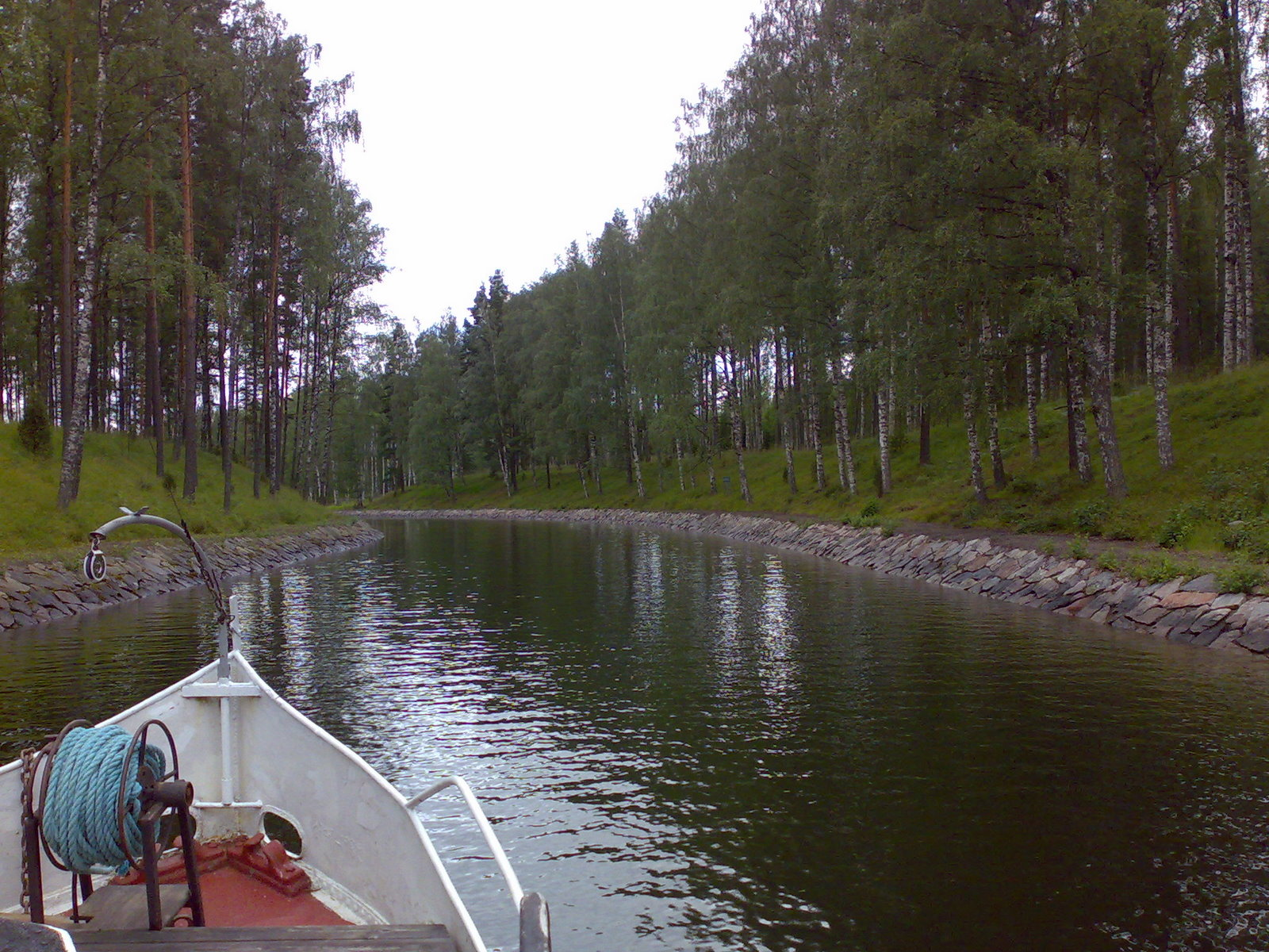 Kirkkotaipale open canal in Ristiina, Finland